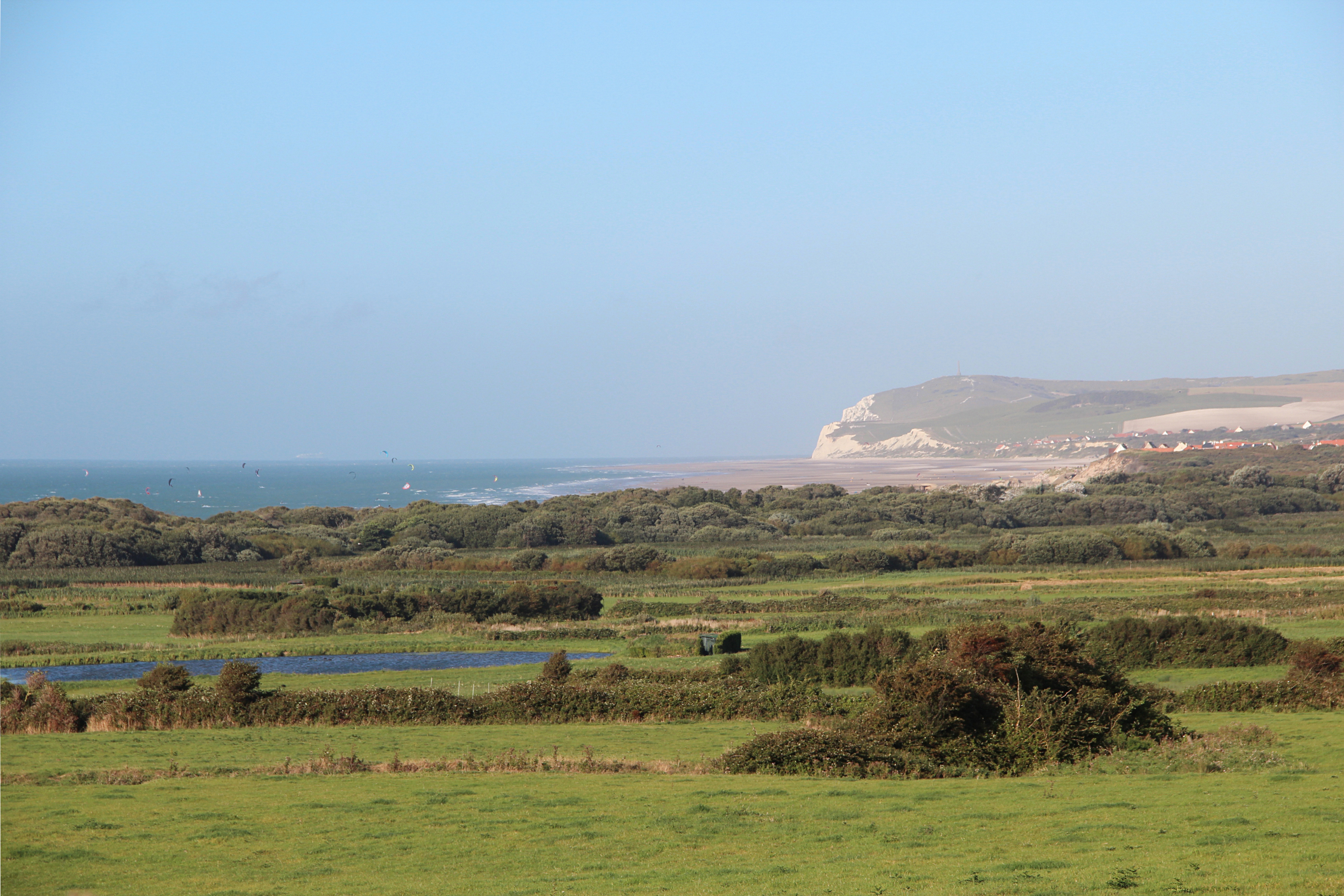 The Cap Blanc-Nez (Cape White Nose), the Channel, the beach of Wissant and the marshes seen from the cemetery of the Saint Martin’s church in Tardinghen (Pas-de-Calais), France.